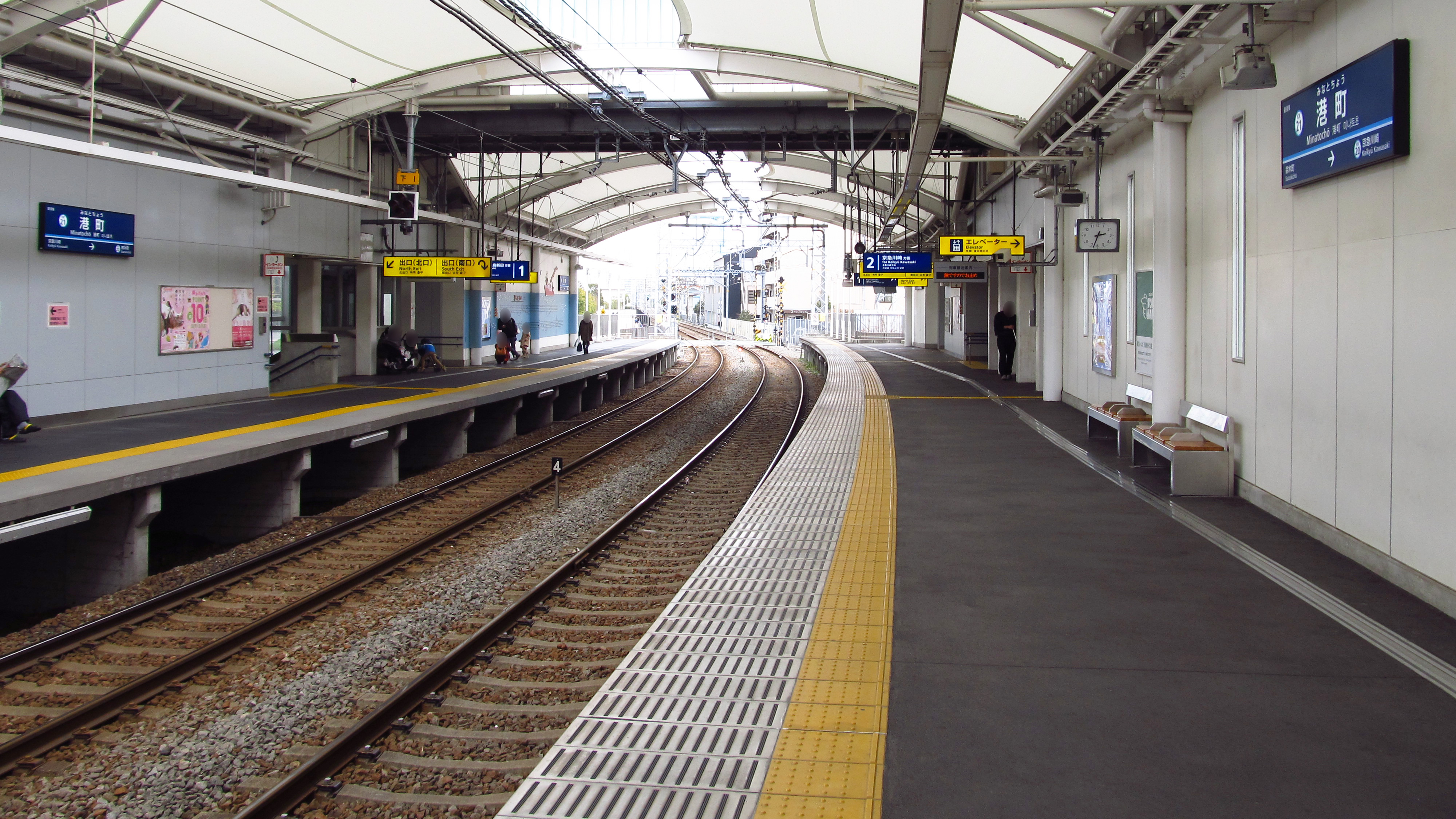 The platforms at Minatochō Station on the Keikyū Daishi Line in Kawasaki ward, Kawasaki city, Japan